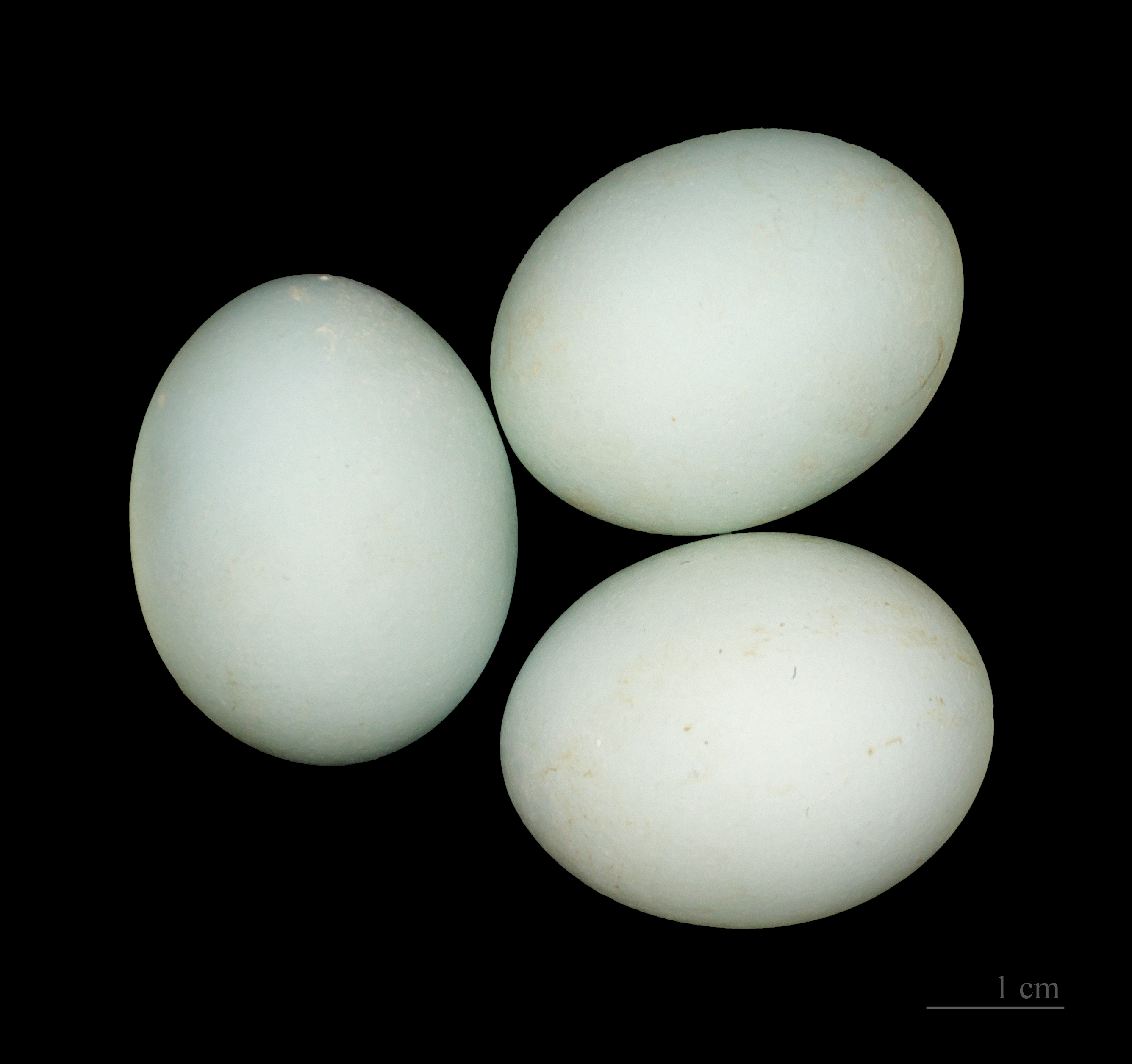 Egg of Squacco Heron. Former Collection of Jacques Perrin de Brichambaut; Collector René de Naurois. Locality: Dakkar - Bango, Senegal